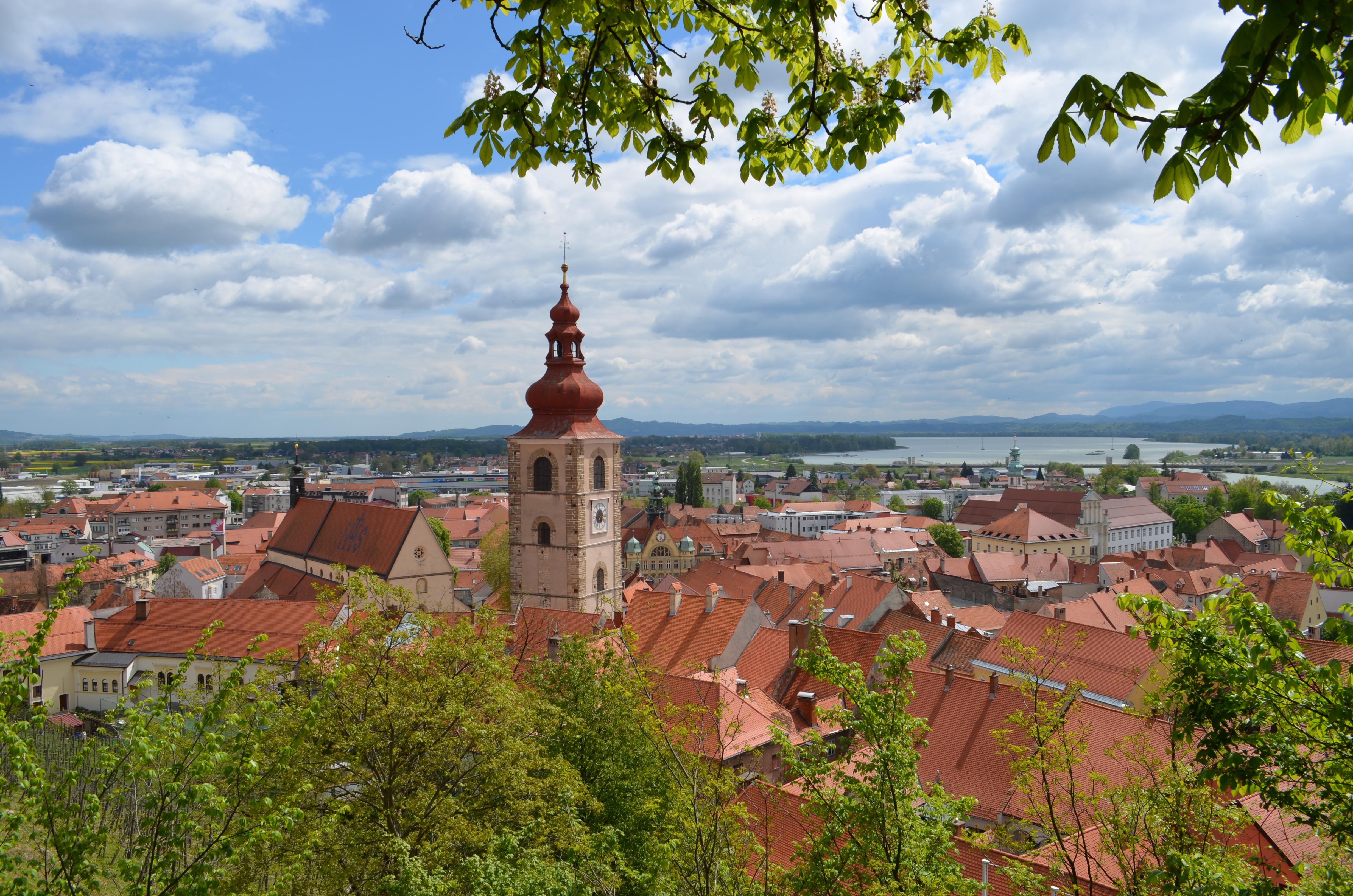 City of Ptuj in Slovenia. Image taken from Ptuj castle.